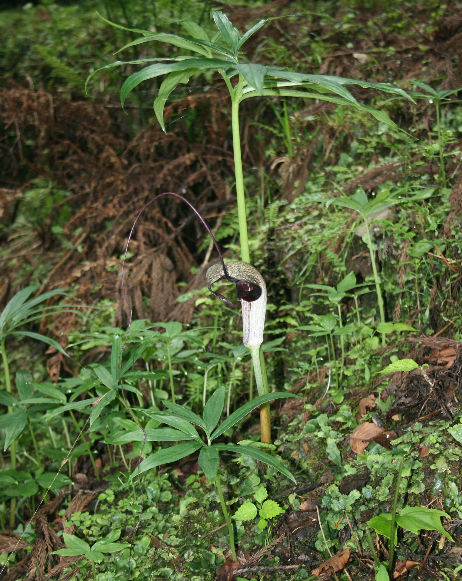 Arisaema thunbergii subsp. urashima or Arisaema urashima seen in Mount Ryozen